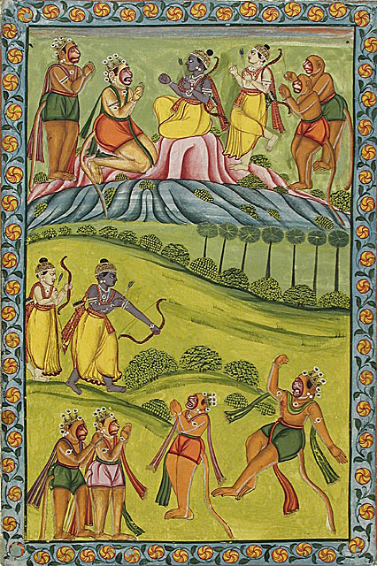 Title Rama Kills Vali, Folio from the ”Impey” Ramayana (Adventures of Rama). Date circa 1770-1775. Museum Number M.72.88.3.